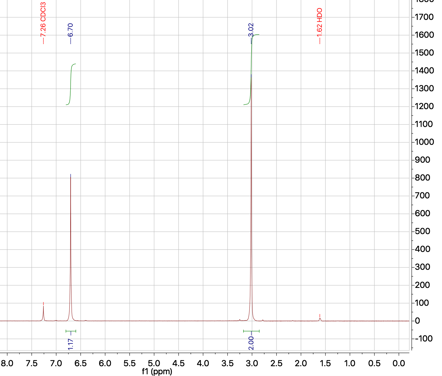 nmr for n-methylmaleimide